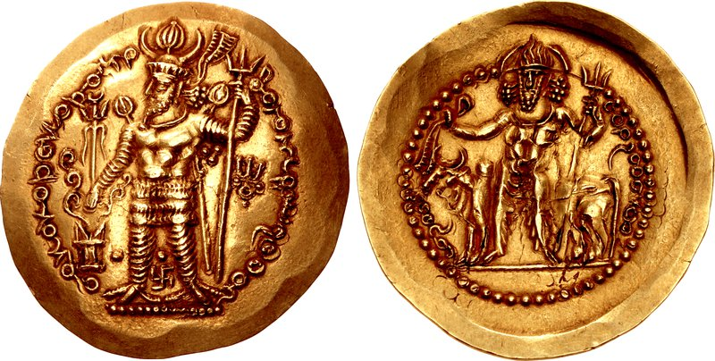 Coin of Peroz II Kushanshah, minted in Tukharistan, possibly at Balkh.